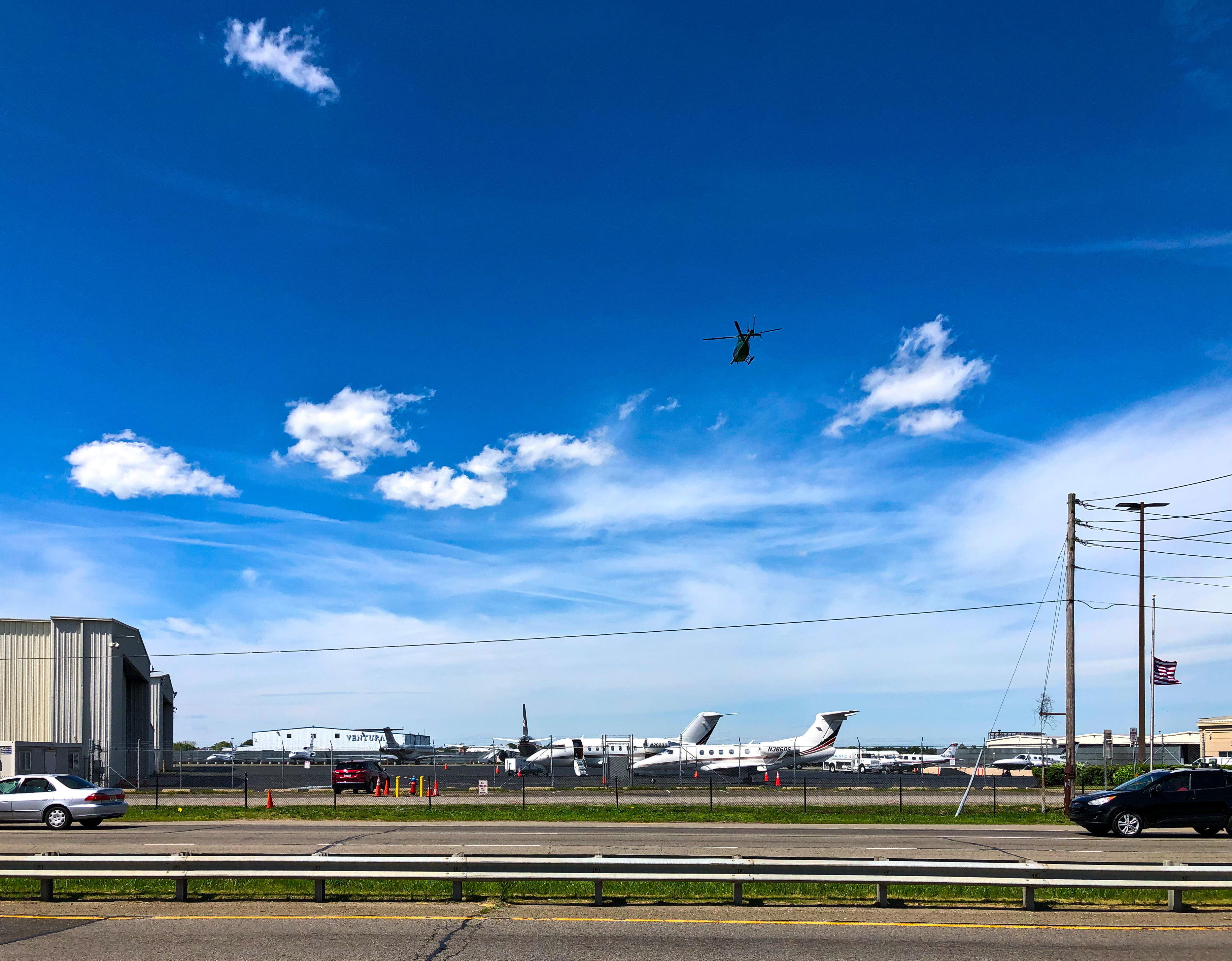 Helicopter landing at Republic Airport FRG in Farmingdale NY